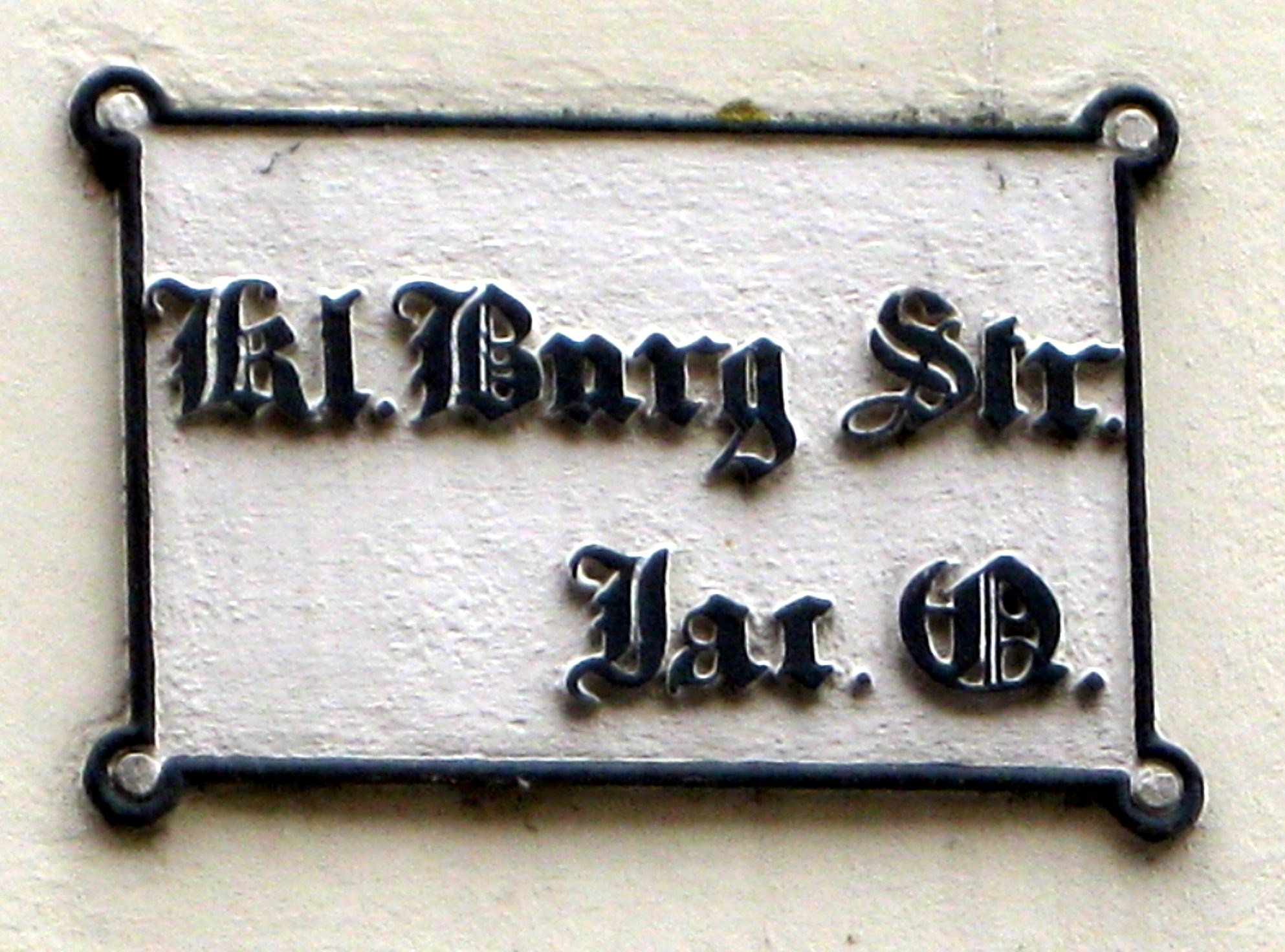 Street sign "Kleine Burg Straße" in Lübeck.